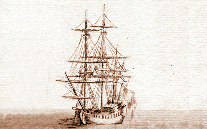 Vessel used for the second voyage to India by Jean-Jacques Proa